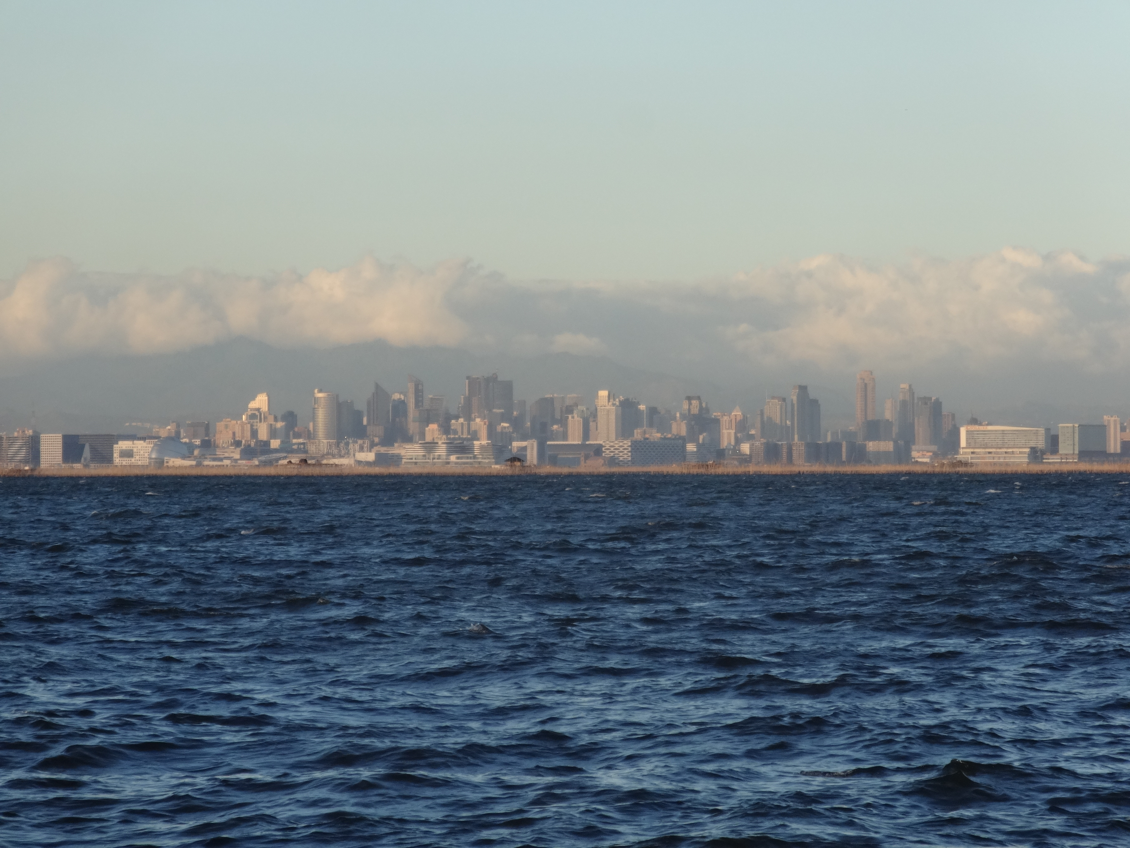 Sunset overlooking of Manila Skyline from Fort San Felipe, Cavite City